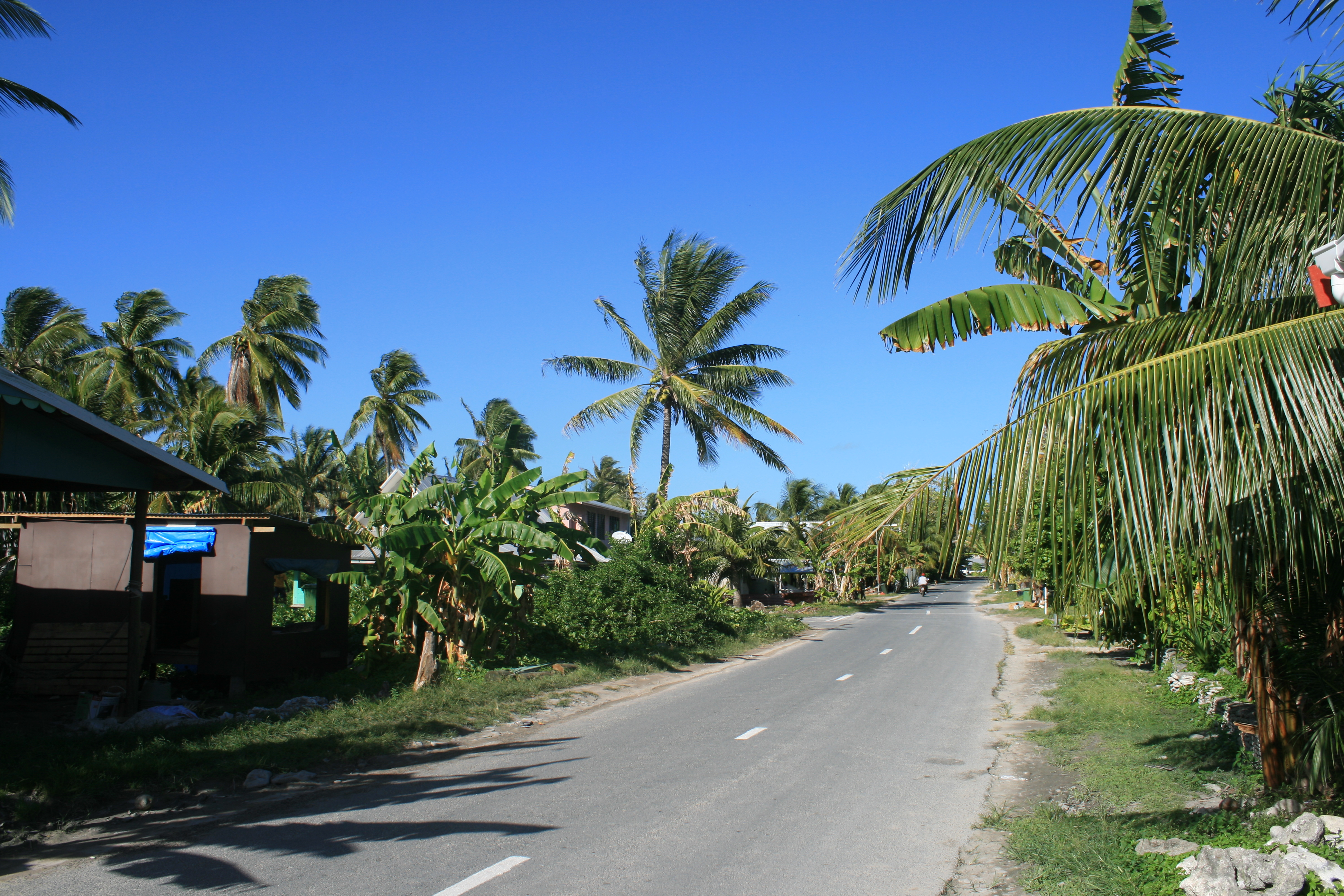 On main road, Funafuti looking south.